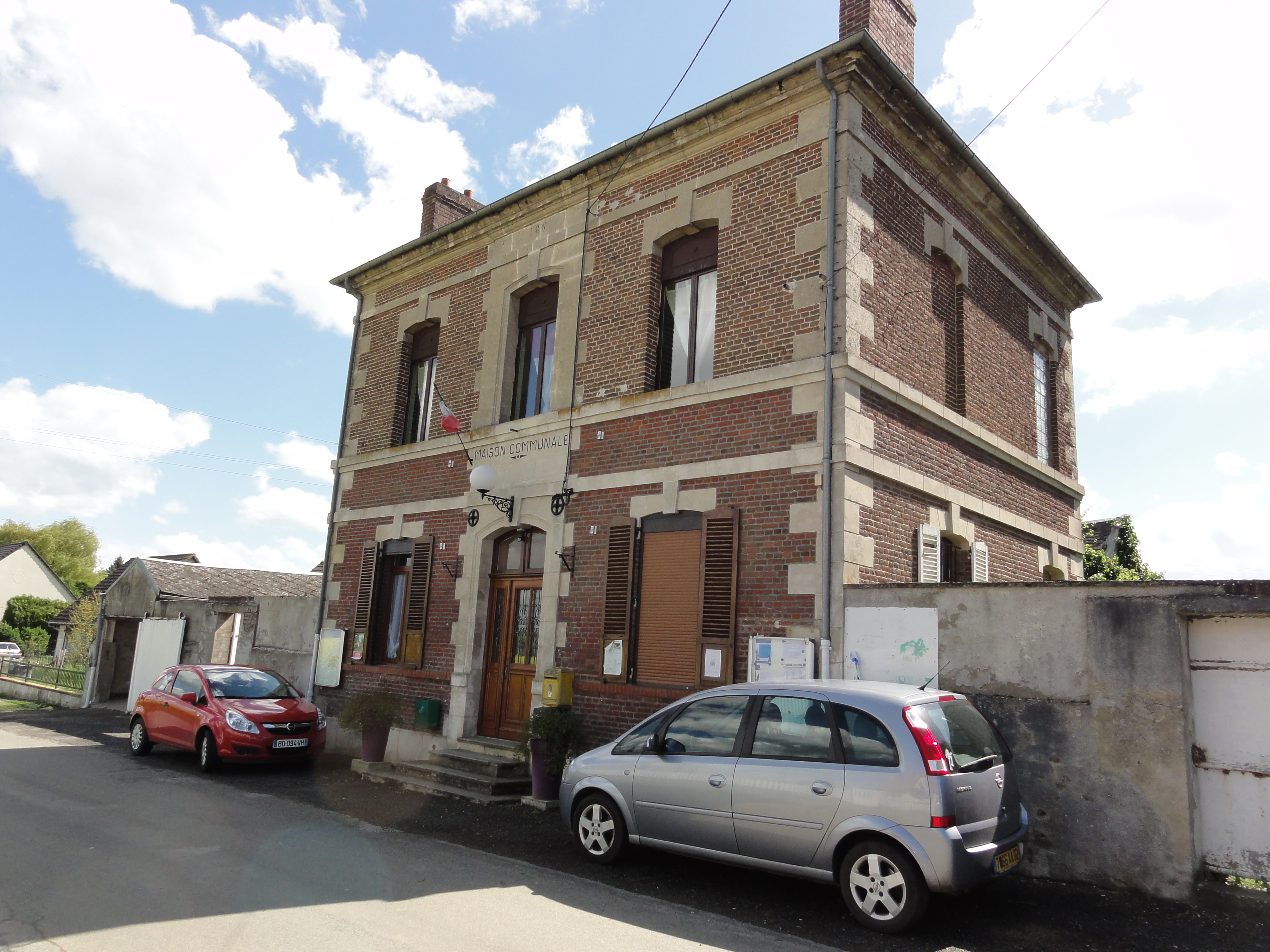 Bertaucourt-Epourdon (Aisne) mairie